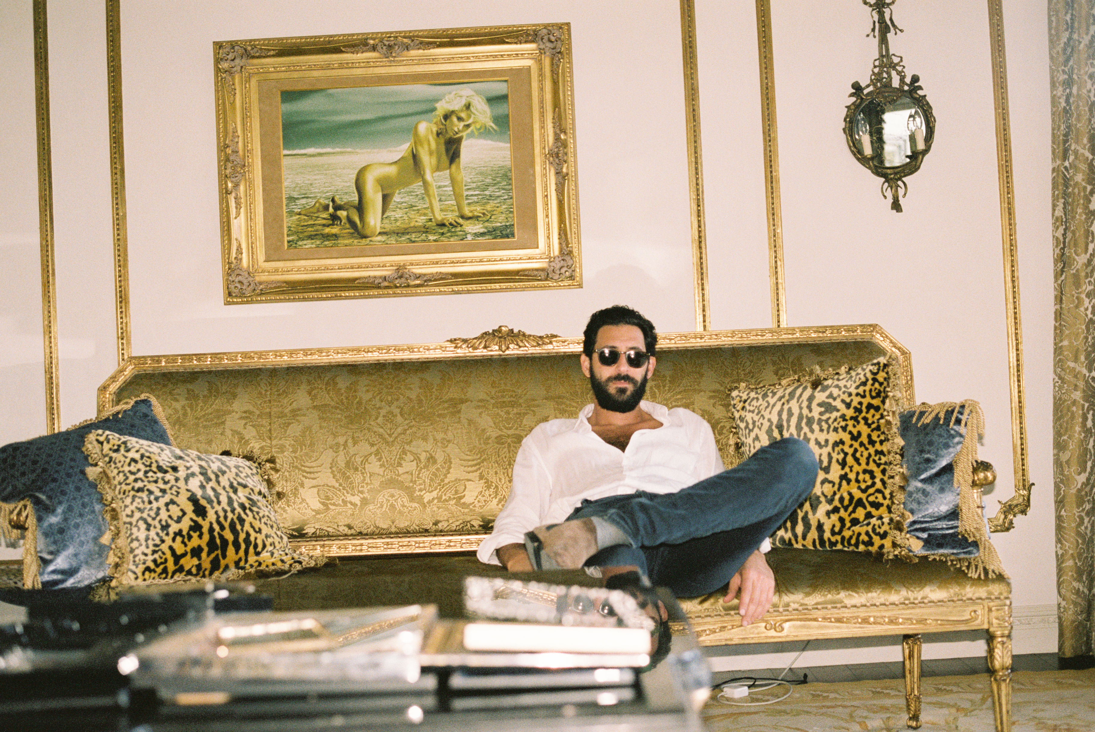 Roy during photoshoot